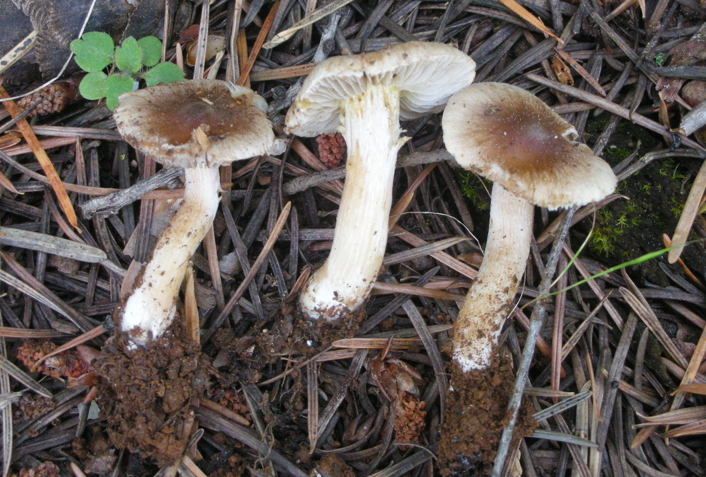 Inocybe abjecta P. Karst., found: Harden Flat, Tuolumne Co., California, USA [